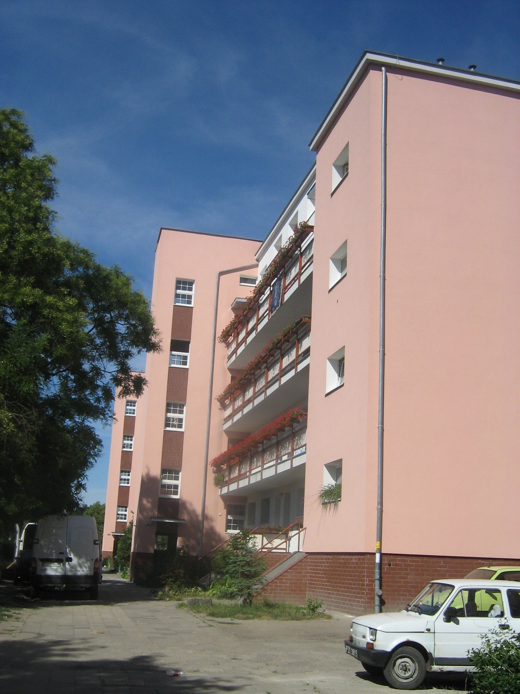 Zawady (Poznań, Poland) - block of flats No 6/8